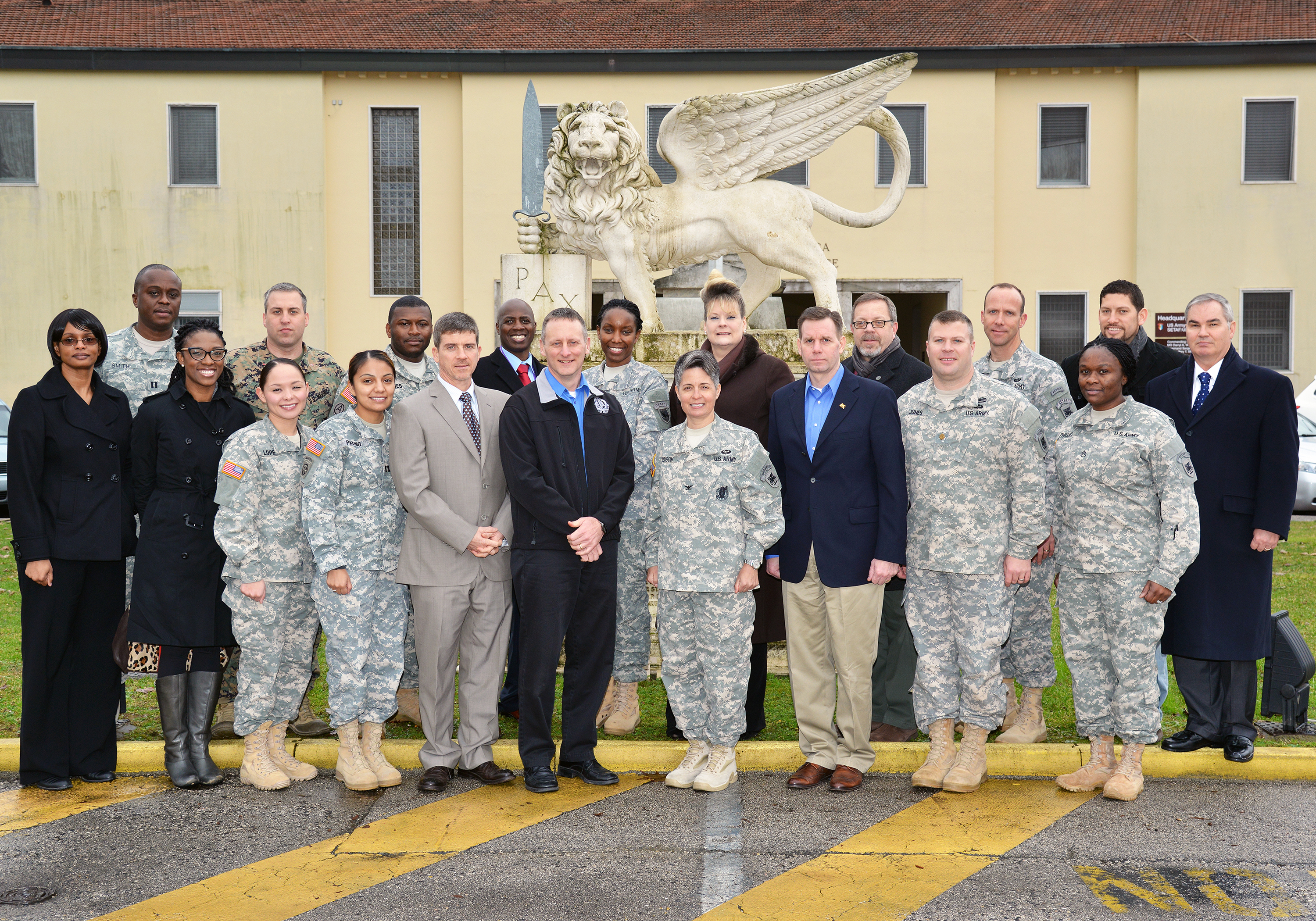 Col. Frances A. Hardison, colonel of Programs and Policy United States Army Africa, with Soldiers and civilians pose for a group photo in front of the USARAF commander's office at Caserma Ederle in Vicenza, Italy, Jan. 23, 2015. (Photo by U.S. Army Visual Information Specialist Davide Dalla Massara)